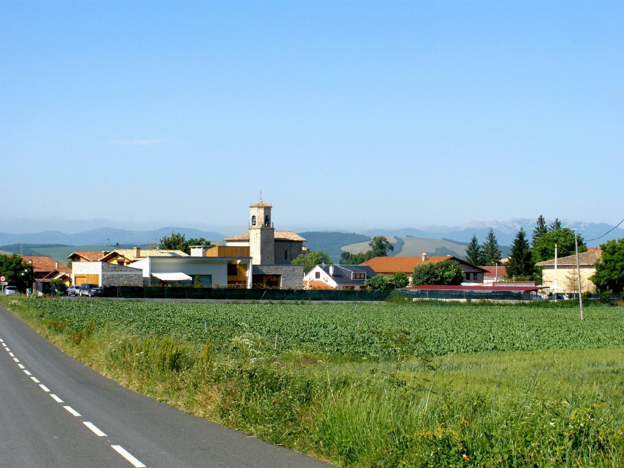 Vista de Añua, en Álava (País Vasco, España)